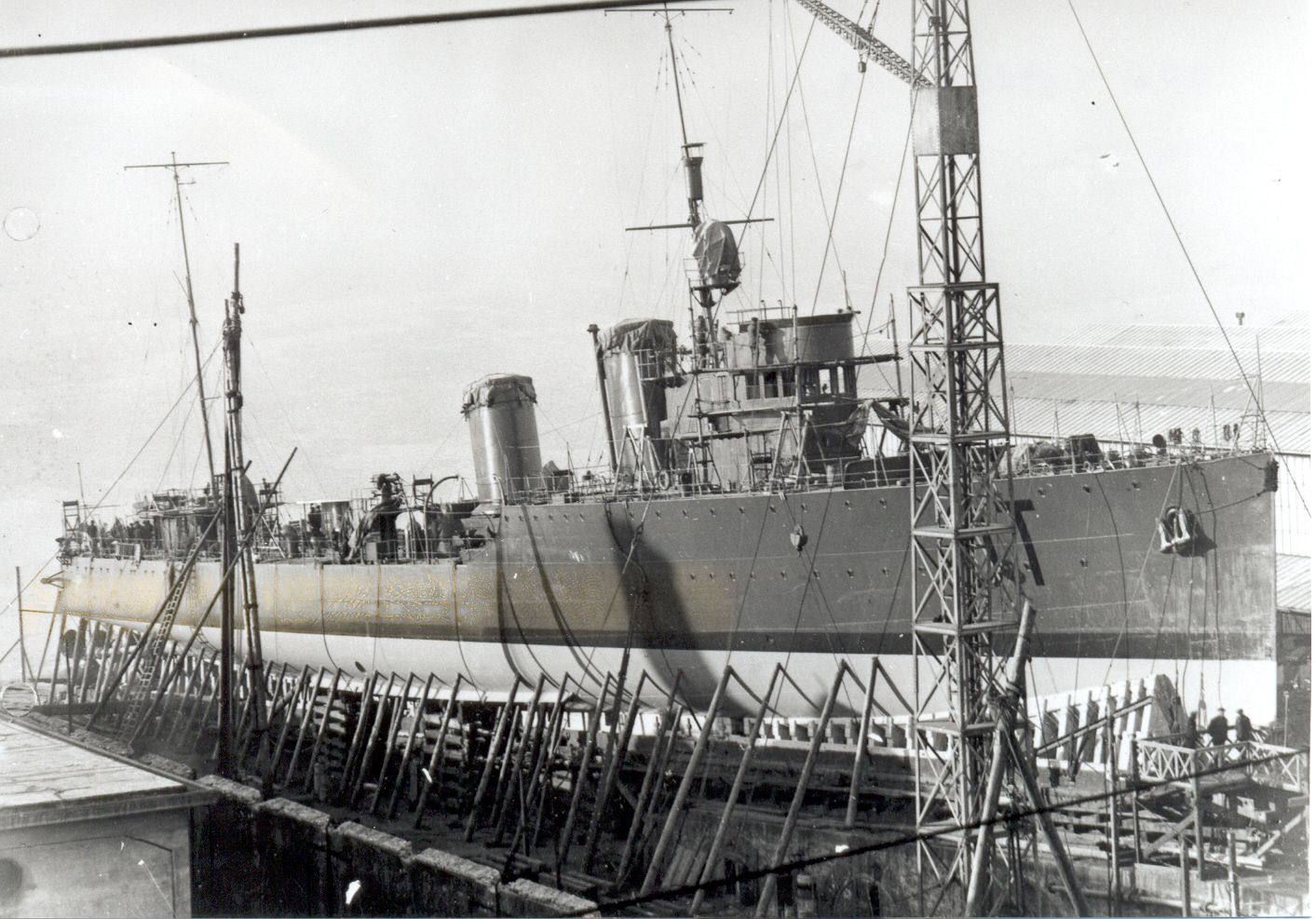 RIN Ostro launch in 1928